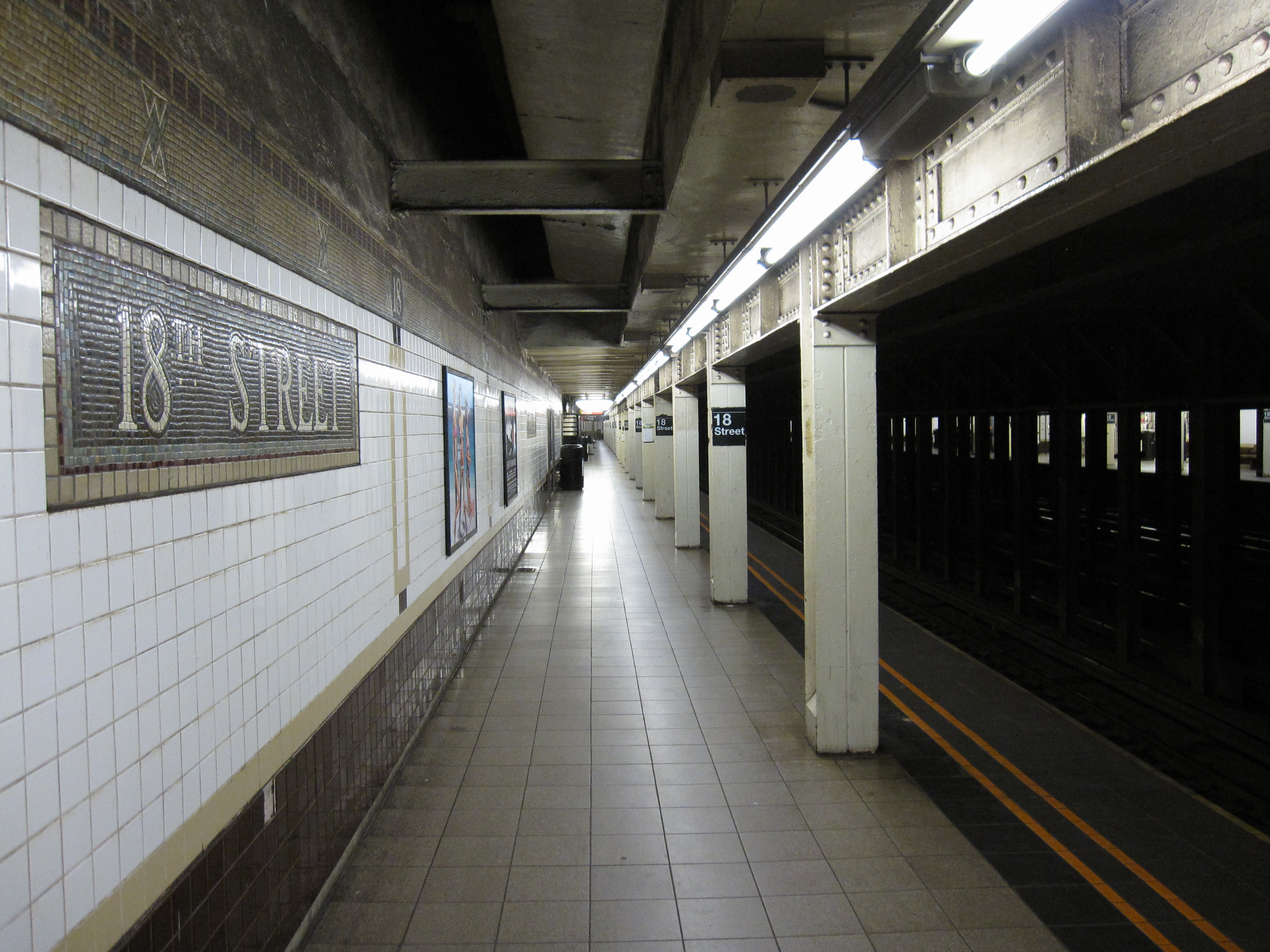 18th Street (IRT Broadway – Seventh Avenue Line)